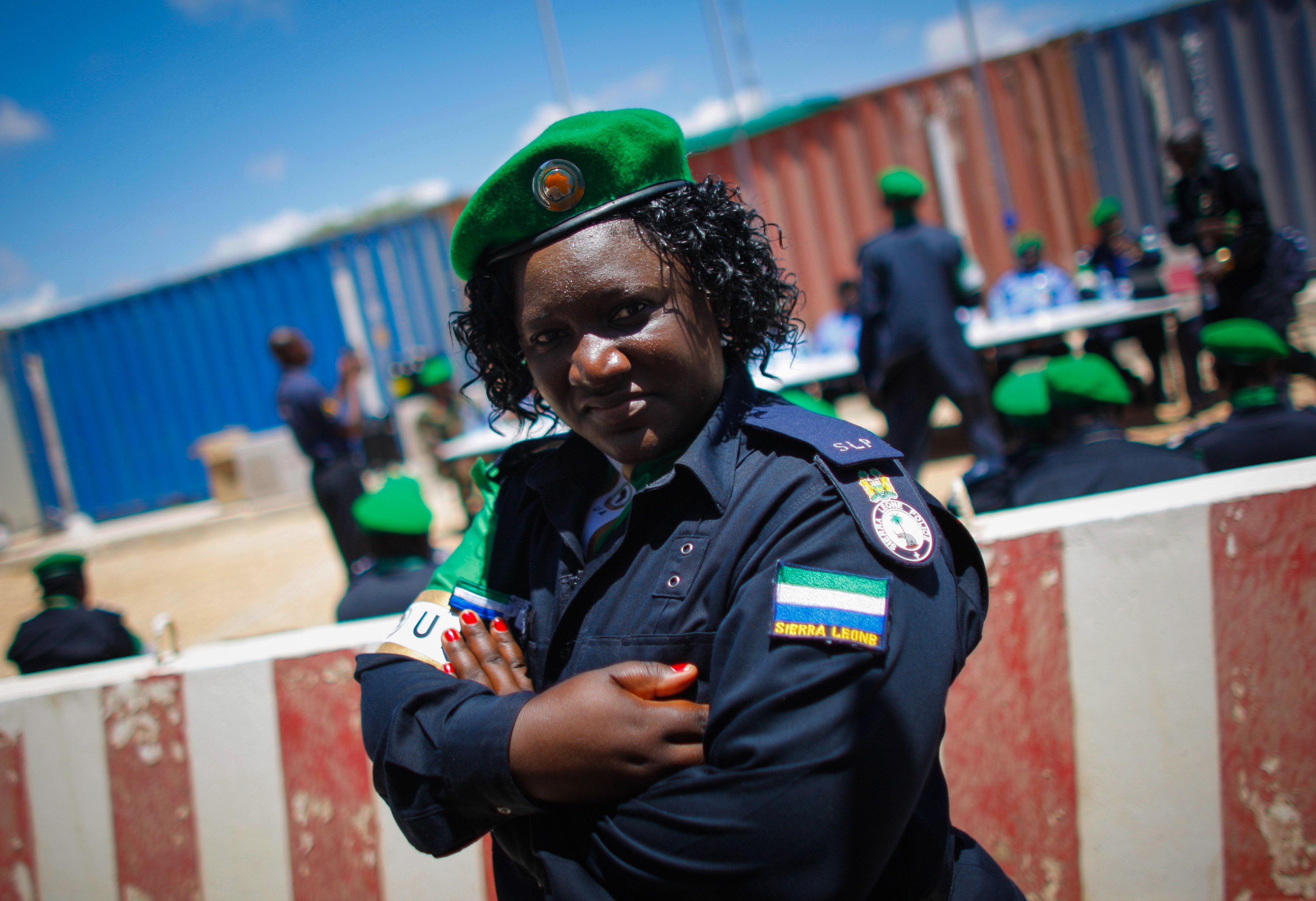 A female officer from the Sierra Leonean Contingent serving with the African Union Mission in Somalia (AMISOM) Individual Police Officers (IPO) stands following a medal parade at the AU Mission's headquarters in the Somali capital Mogadishu, 15 March 2013. 38 officers each received a 6-month Medal of Service today marking the mid-way point of their 1-year deployment to Somalia where they have been central in assisting the reforming restructuring, monitoring and mentoring of the Somali Police Force (SPF) as it begins rebuilding after two decades of conflict and instability in the Horn of Africa nation. AU-UN IST PHOTO / STUART PRICE.